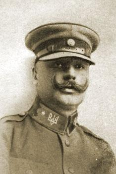 Pawlo Shandruk (Ukrainian: Павло Шандрук